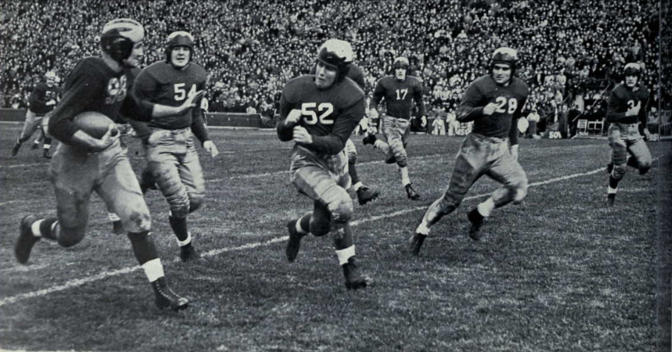 Photograph of University of Michigan athlete Tom Harmon,#98 with ball, running for touchdown against Yale in 1939